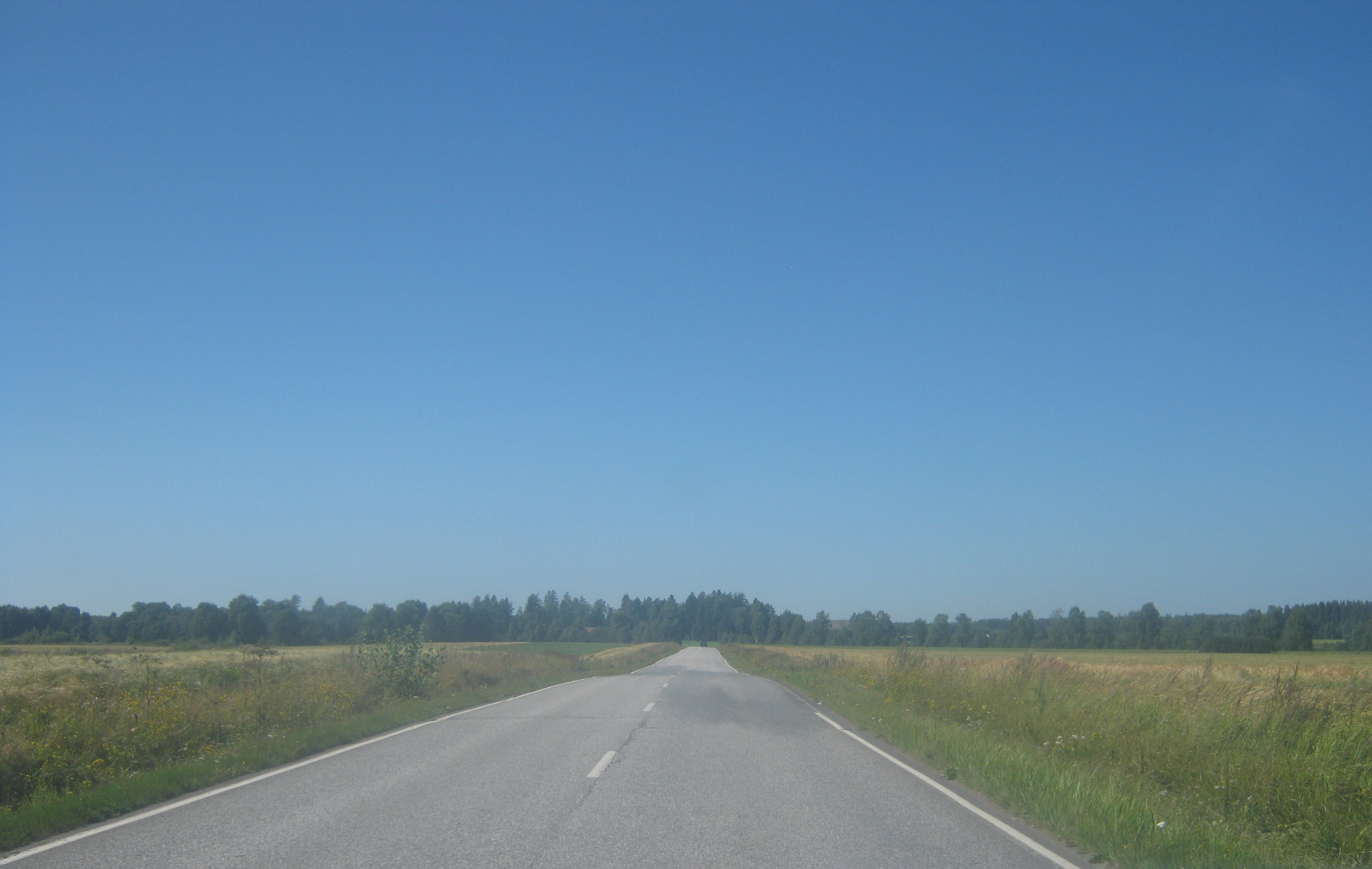 Regional road 2440, Nakkila, Finland.